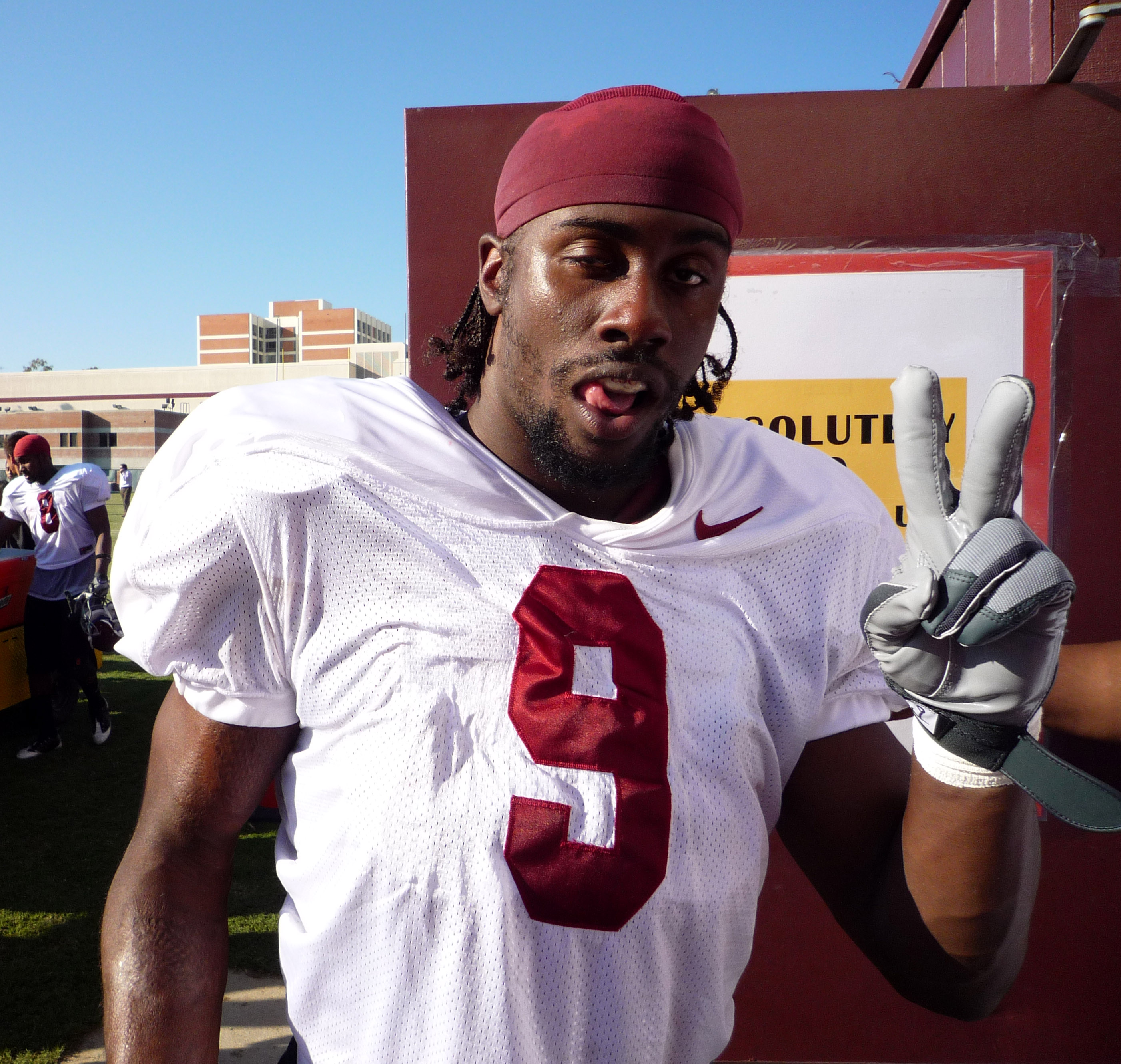 Receiver David Ausberry, hamming it up after a fall practice preceding the 2008 USC Trojans football season. He is making the traditional USC Trojan "V" for victory hand sign.